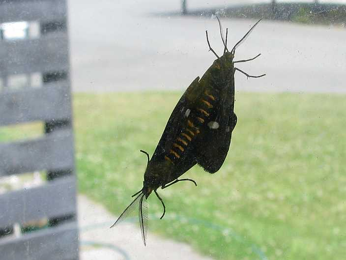 Nyctemera annulata (NZ Magpie moth) mating